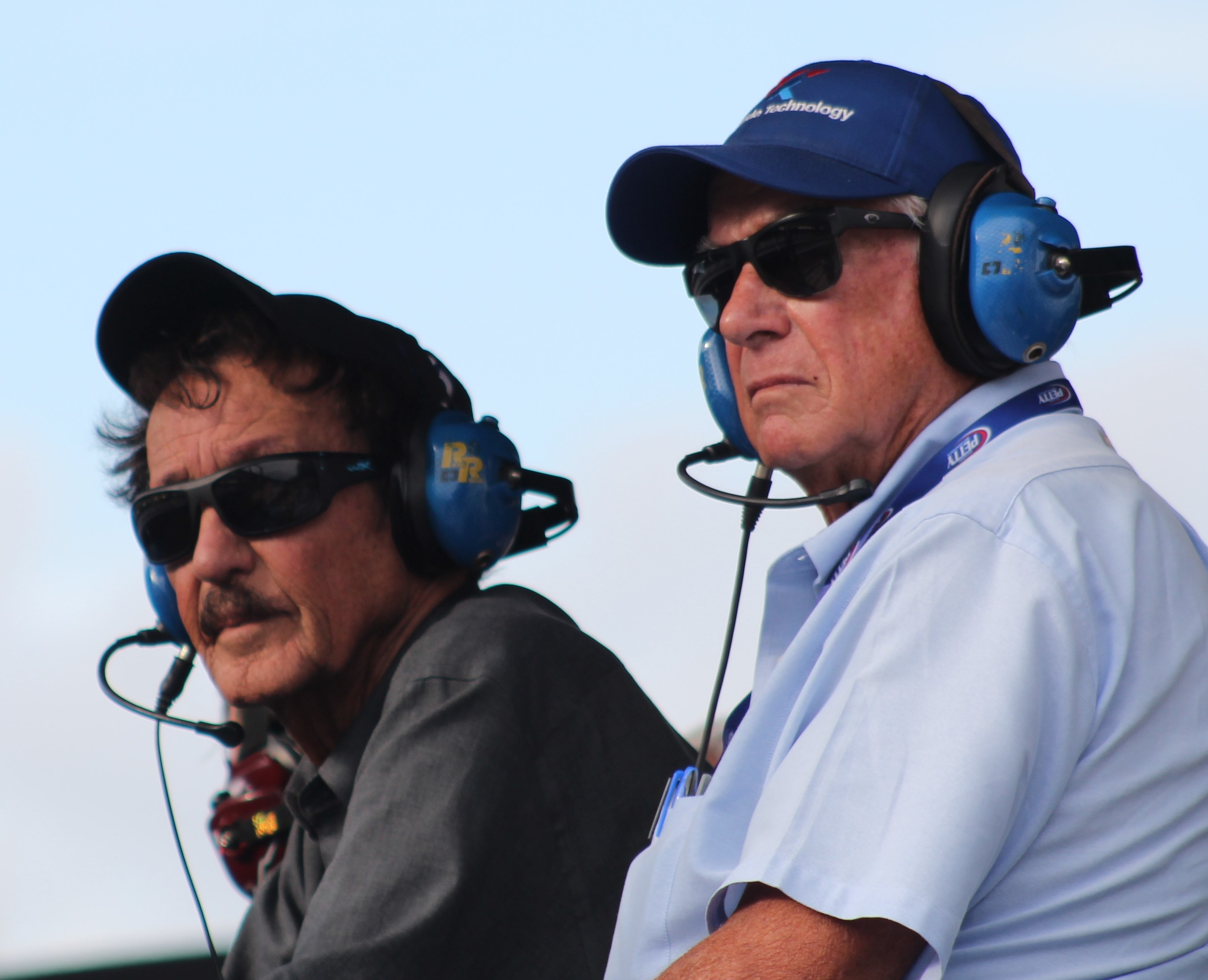 Richard Petty and Dale Inman at Indianapolis Motor Speedway in 2019